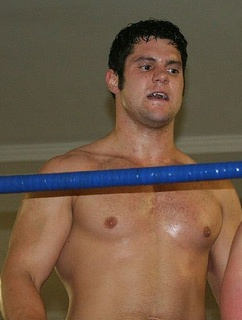 A cropped version of File:Eddie Edwards (wrestler) in July 2008.jpg, which was uploadded from Flickr and depicts professional wrestler Eddie Edwards at a Squared Circle Wrestling event on July 26, 2008